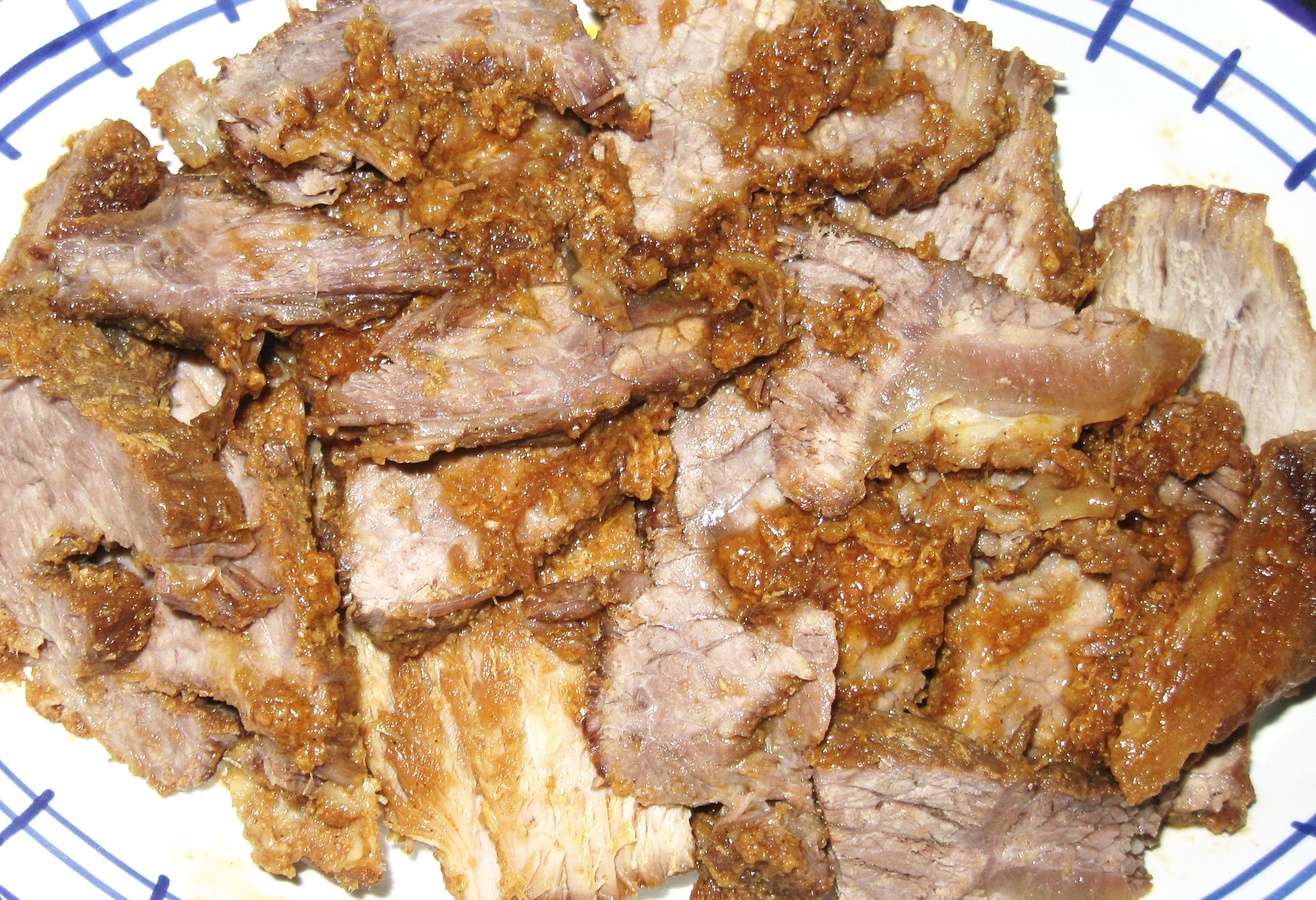 Rib piece roasted with vinegar, sliced and served with paste made of garlic and other spices, often called cold beef.